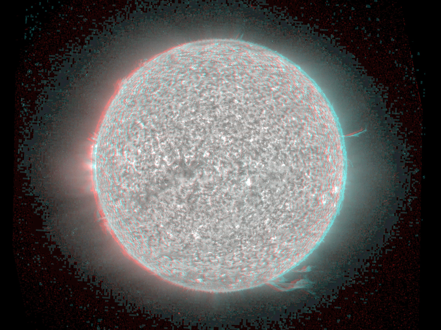 3D image of Sun provided by STEREO satelites